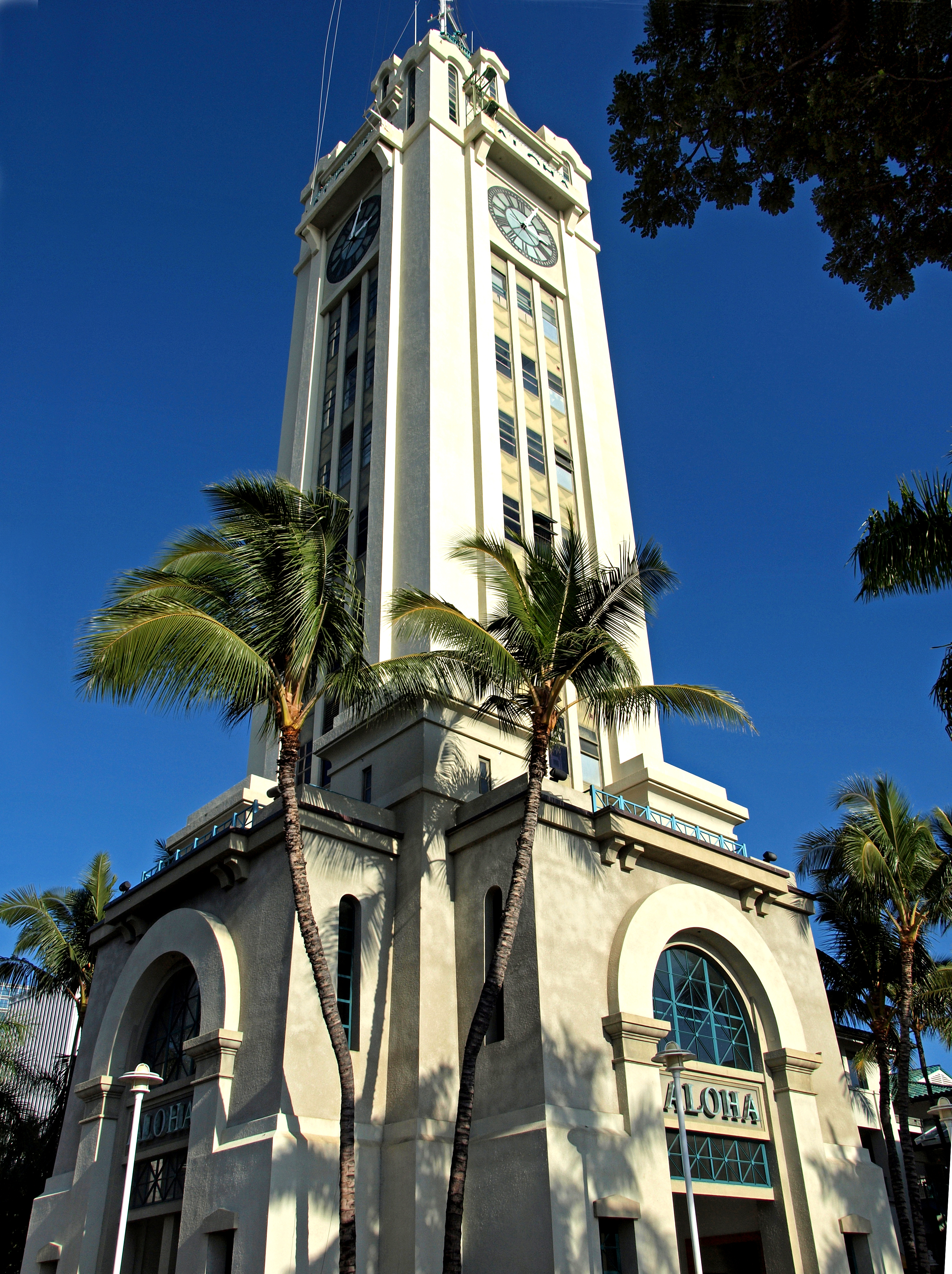 Aloha Tower